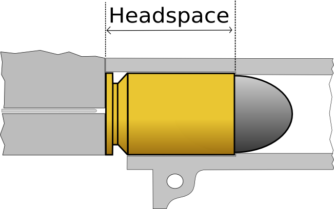 Diagram showing headspace measurement of a .45 ACP semi-automatic pistol